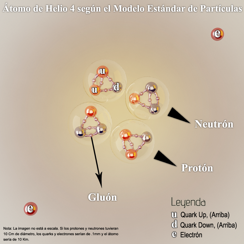 Helium-4 Atom, according to Standard Model